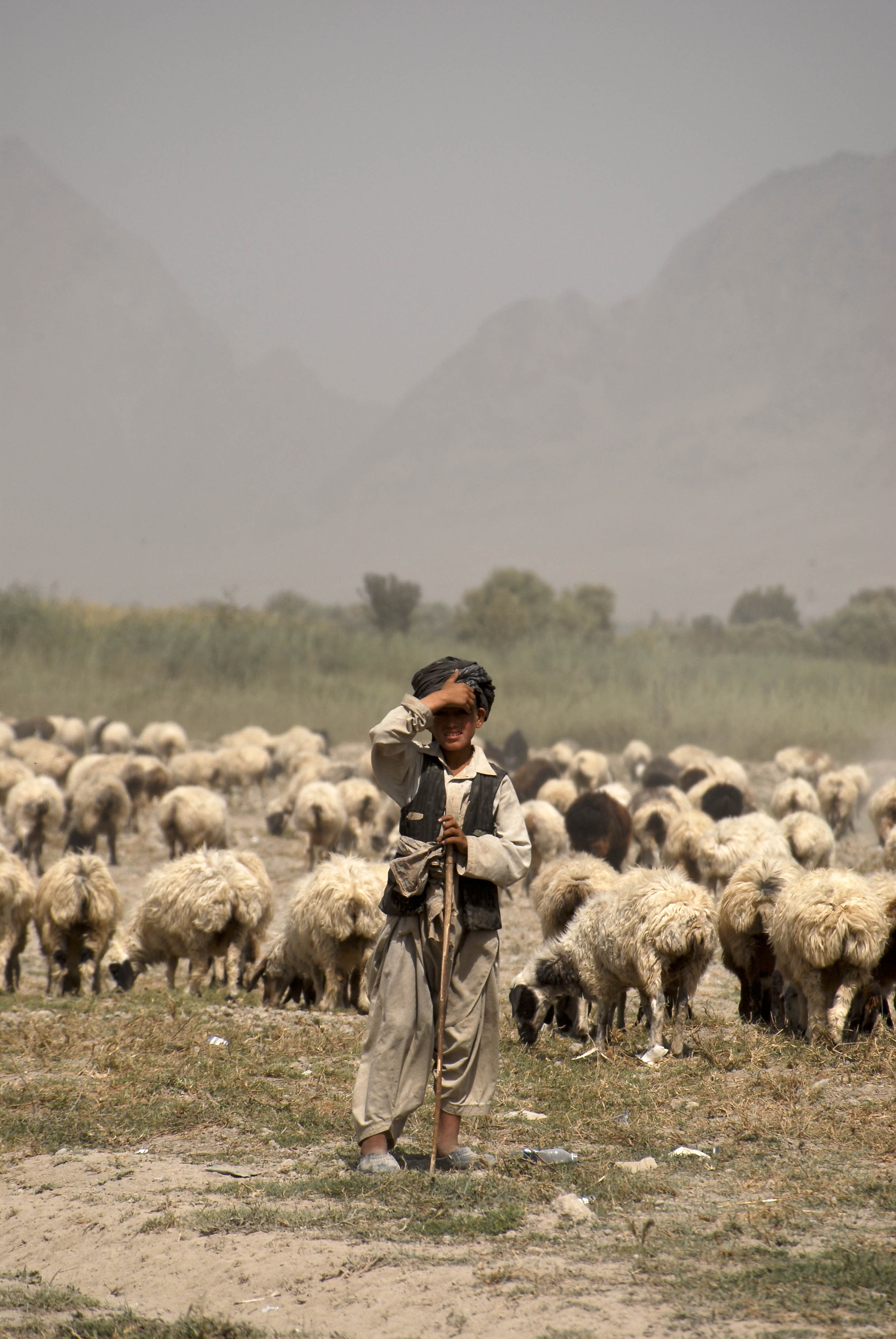 A young Afghan shepherd looks on as coalition forces from Special Operations Task Force-South stop to talk with policemen from 3rd Battalion, 3rd Afghan National Civil Order Police Brigade, who are manning a checkpoint Aug. 29 in the Arghandab River Valley, Kandahar province, Afghanistan.